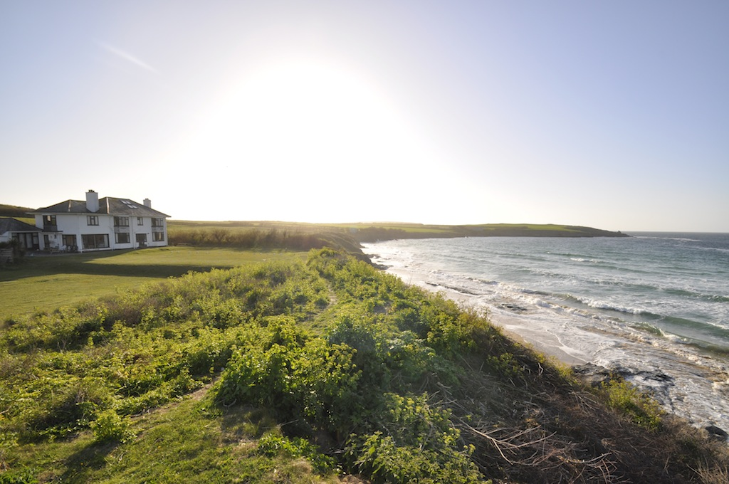 View of Harlyn Bay from Clifftop